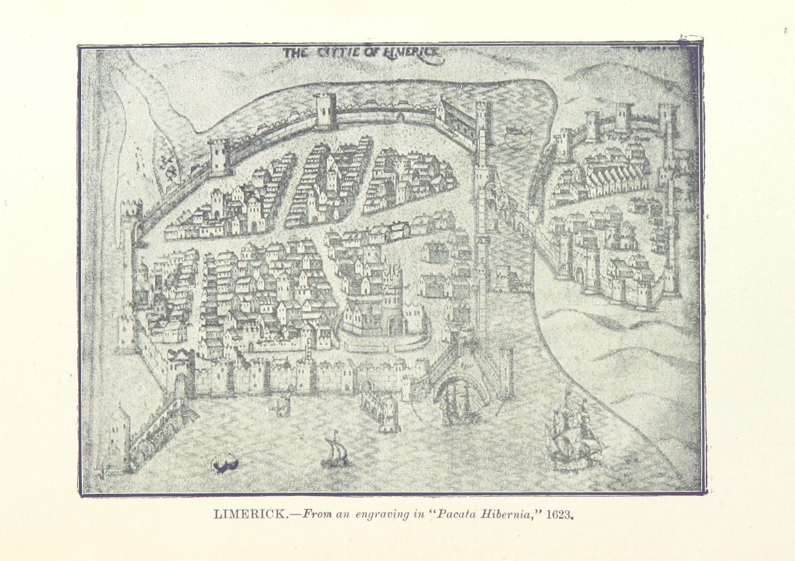 View this map on the BL Georeferencer service. Image taken from: Title: "Limerick and its Sieges ... Illustrated" Author: DOWD, James. Shelfmark: "British Library HMNTS 10390.bbb.27." Page: 8 Place of Publishing: Limerick Date of Publishing: 1890 Publisher: G. MacKern & Sons Issuance: monographic Identifier: 000975775 Explore: Find this item in the British Library catalogue, 'Explore'. Open the page in the British Library's itemViewer (page image 8) Download the PDF for this book Image found on book scan 8 (NB not a pagenumber)Download the OCR-derived text for this volume: (plain text) or (json) Click here to see all the illustrations in this book and click here to browse other illustrations published in books in the same year. Order a higher quality version from here.